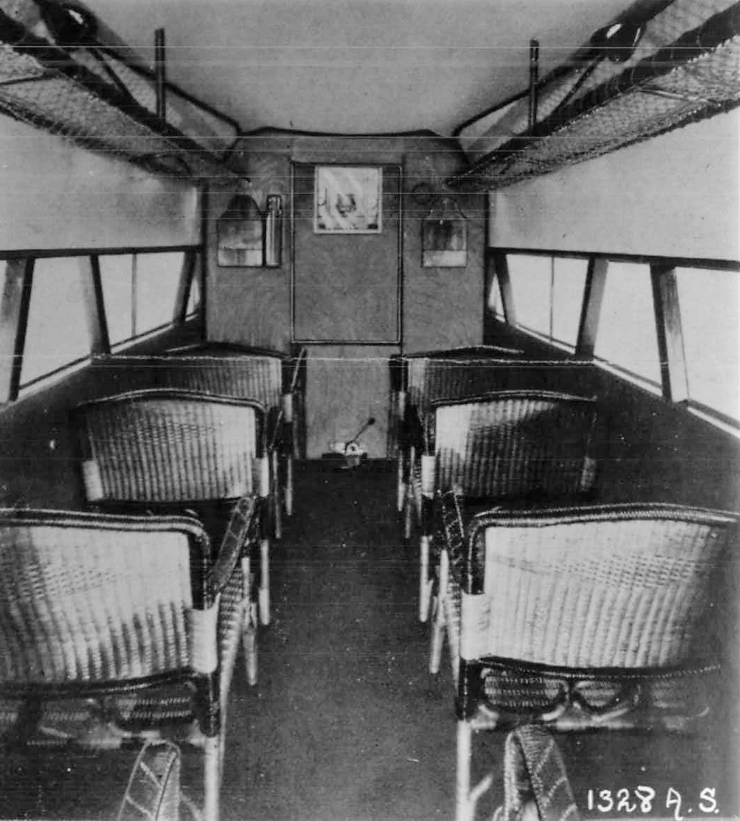 Fokker F.VII photo from NACA Aircraft Circular No.74